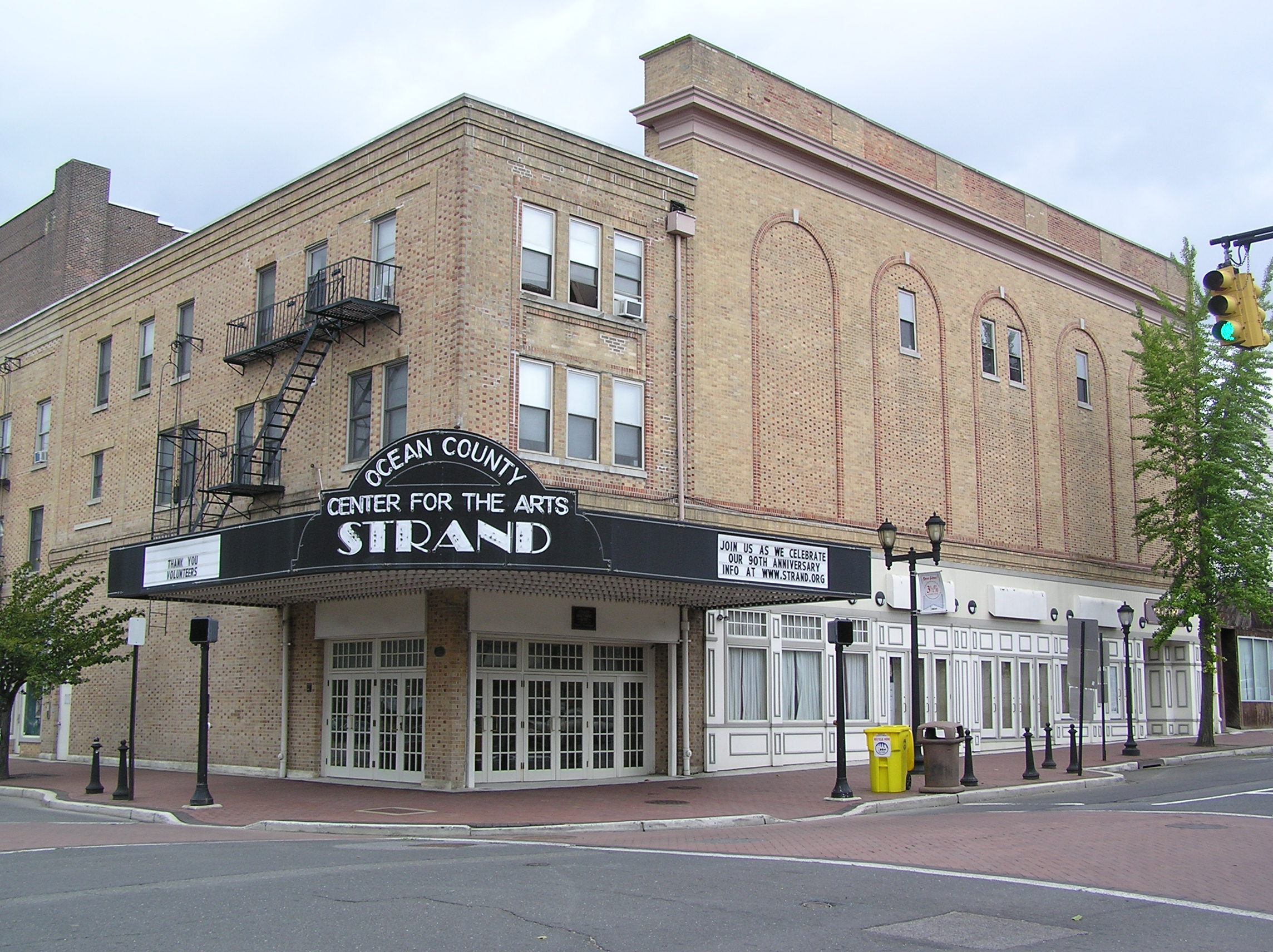 Strand Theater, 400 Clifton Avenue, Lakewood, NJ. The upper two floors of the building above the marquee and to the left of the photo are apartments. The raised area of the building to the left top of the photo is the stage area. The projection booth for movies was located at the windows to the right. The building is currently occupied by the Ocean County Center for the Arts.